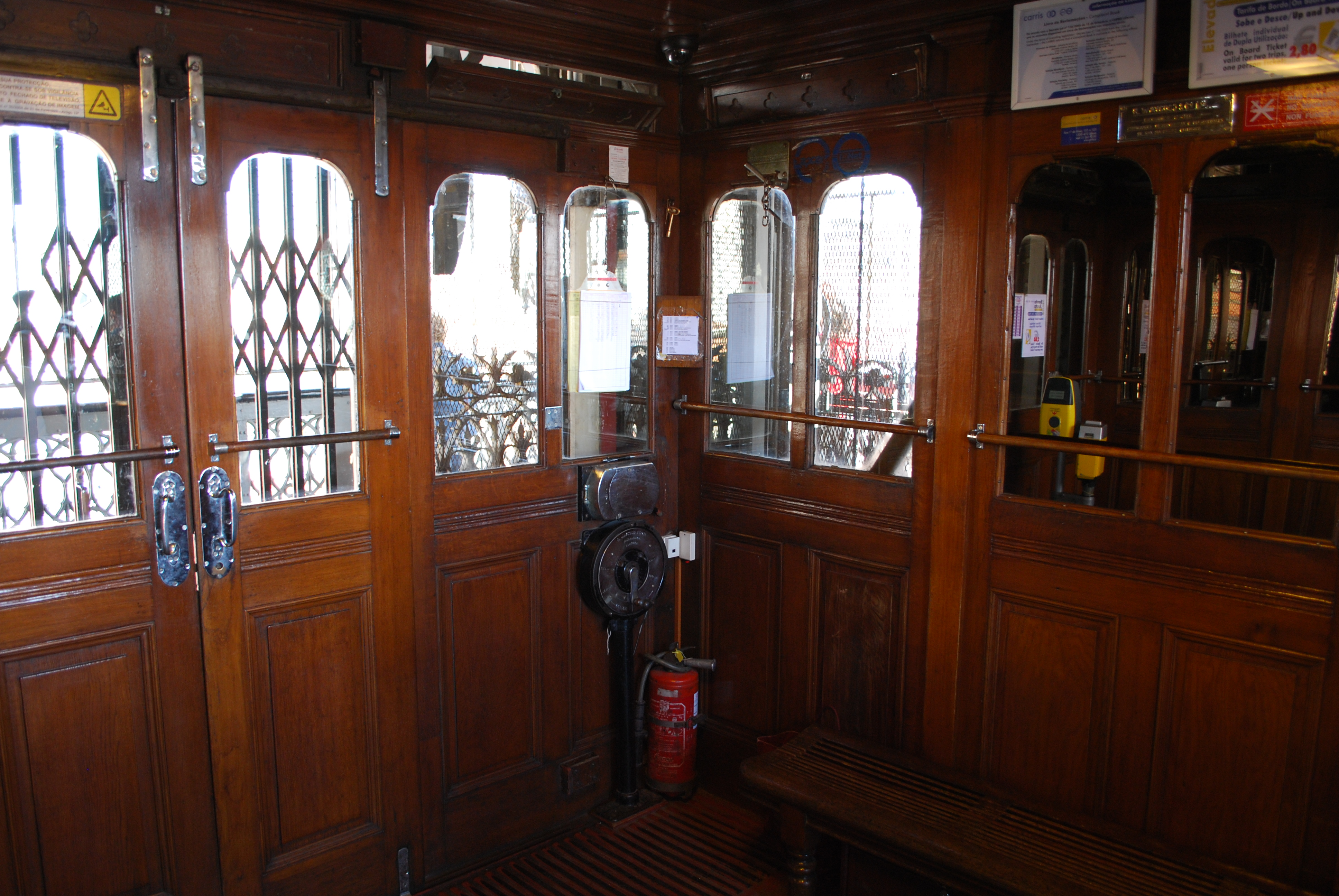 This file was uploaded for Wiki Loves Monuments in Portugal with the unique identifier 70141.